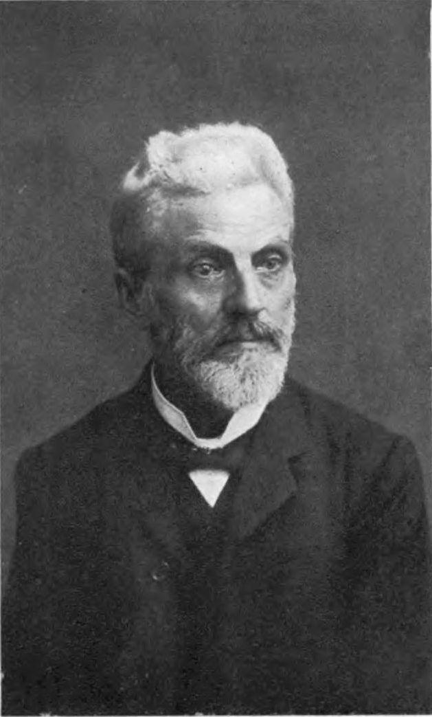 joh de rijke whangpoo conservancy